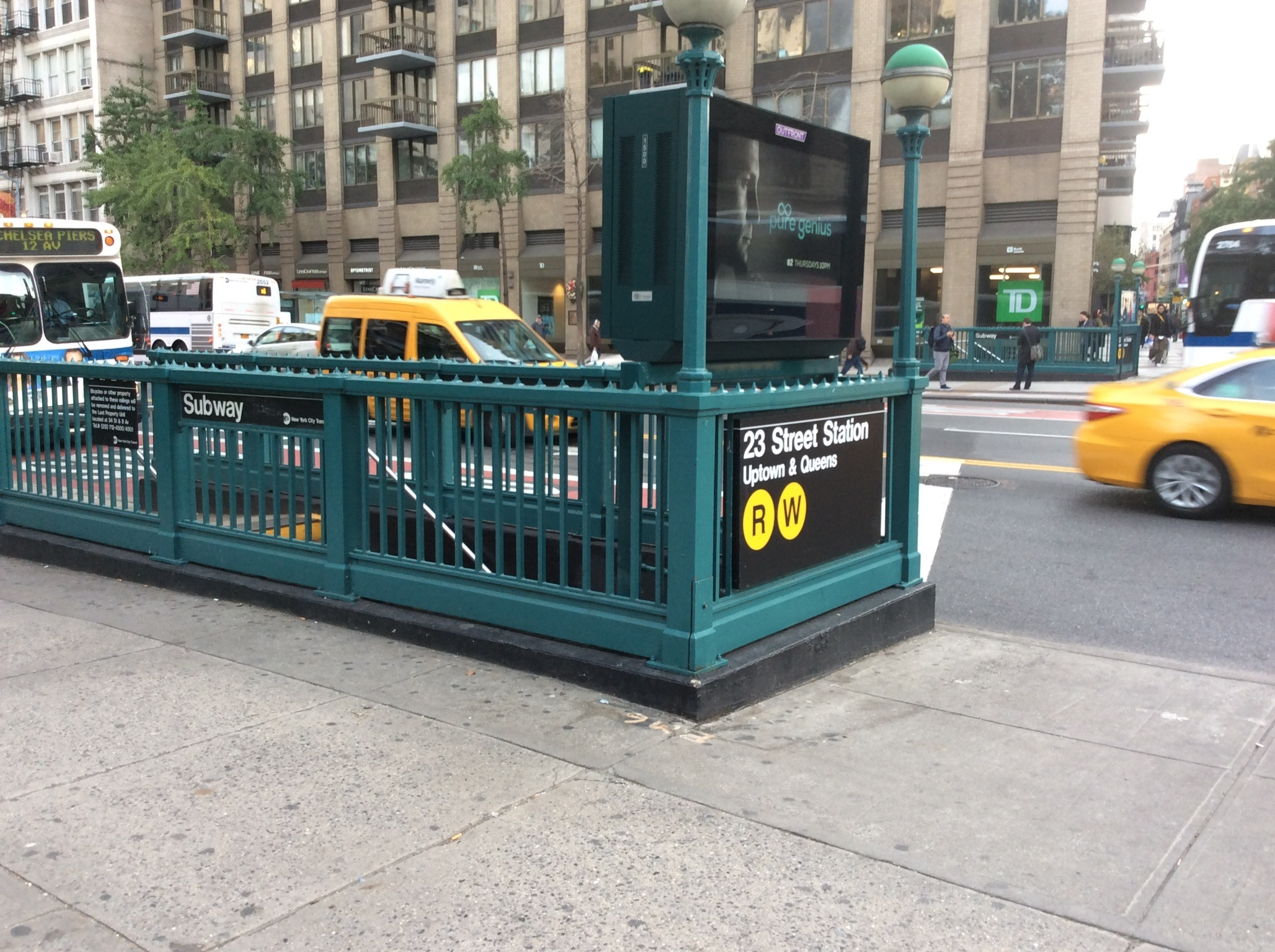 The entrance to the 23rd Street (BMT Broadway Line) subway station in October 2016, with the subway entrance's sign having been replaced recently.